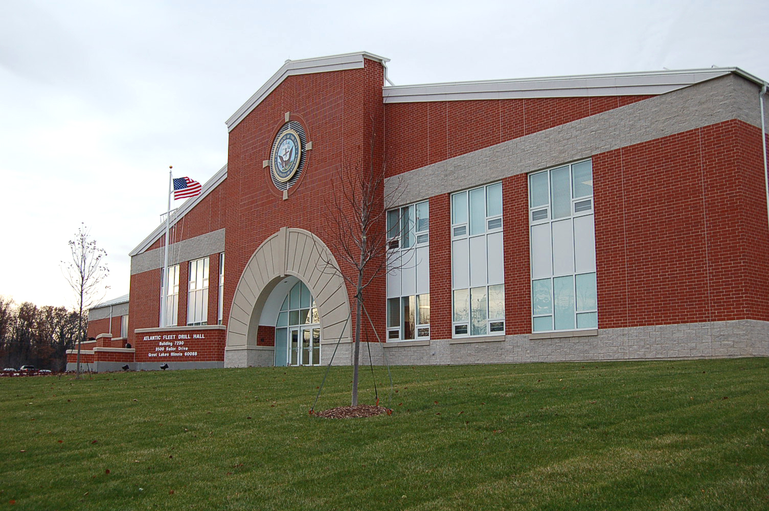 071204-N-0000X-001 GREAT LAKES, Ill. (Dec. 4, 2007) Exterior view of the new Atlantic Fleet Drill Hall at Recruit Training Command, Great Lakes. The new hall includes administrative offices, recruit drill area and classrooms, building equipment and furnishings. U.S. Navy photo (Released)